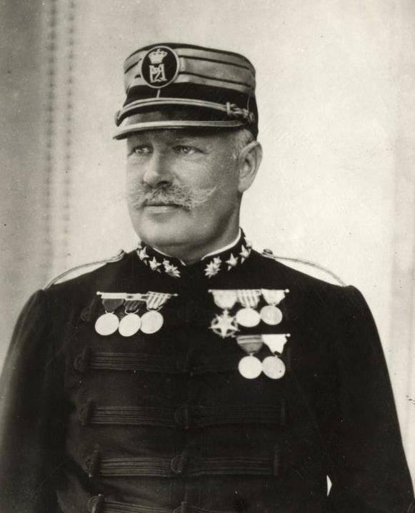 Anterior a 1910.